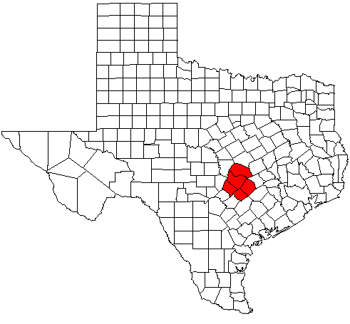 Map of Texas highlighting the Austin–Round Rock–San Marcos metropolitan area; created with the GIMP; made by User:Acntx.